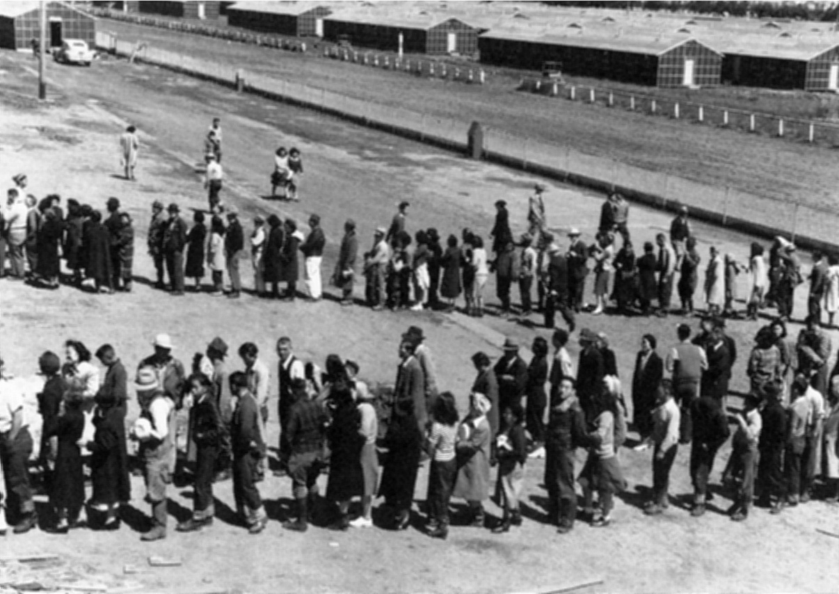 A Japanese-American internment center. Description: This assembly center has been open for two days. Only one mess hall was operating today. Photograph shows line-up of newly arrived evacuees outside of this mess hall at noon. Tanforan Assembly Center. San Bruno, CA, April 29, 1942. Dorothea Lange.